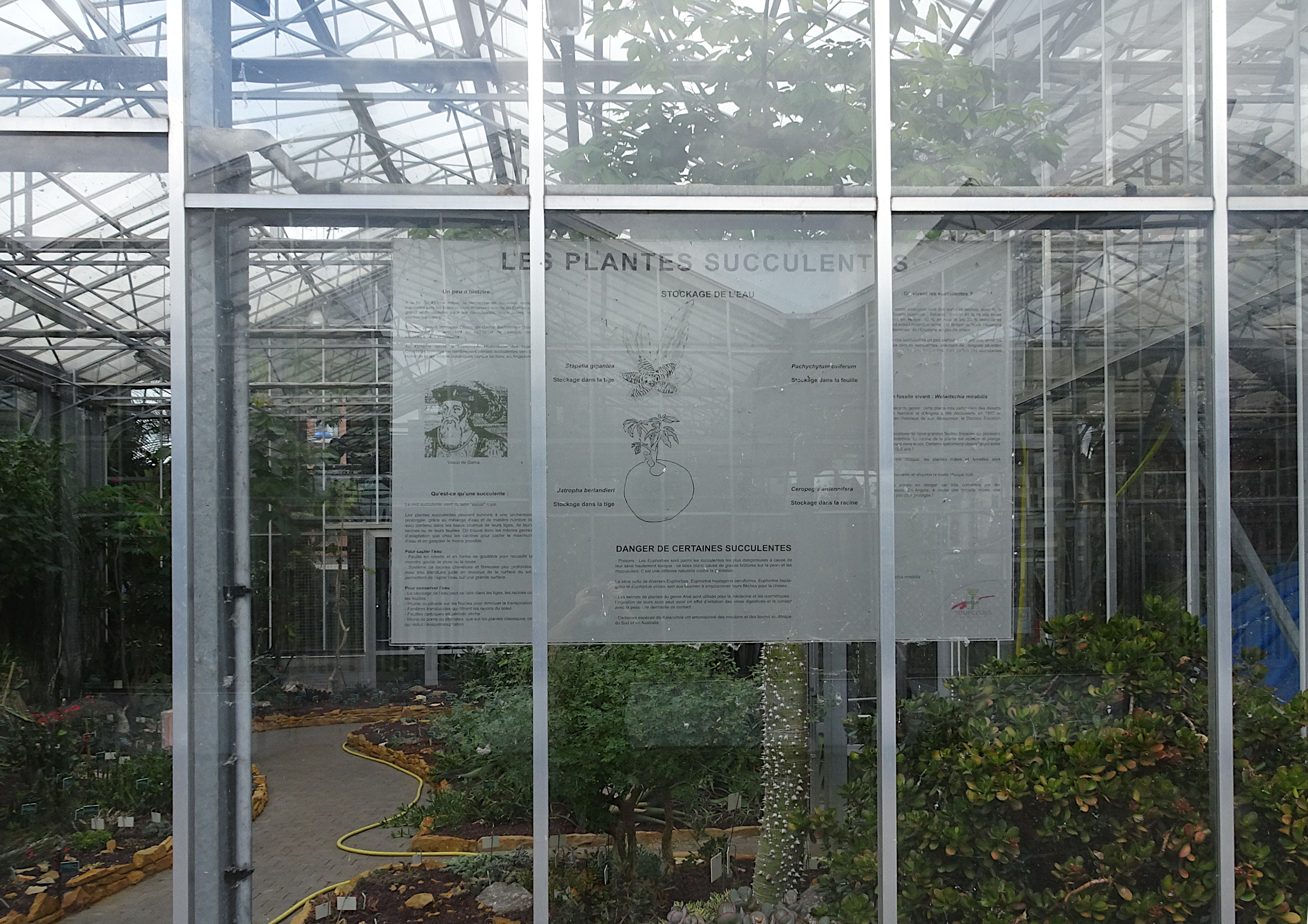 Succulent plants greenhouse Botanical Garden of Jardin botanique de Tourcoing Nord.